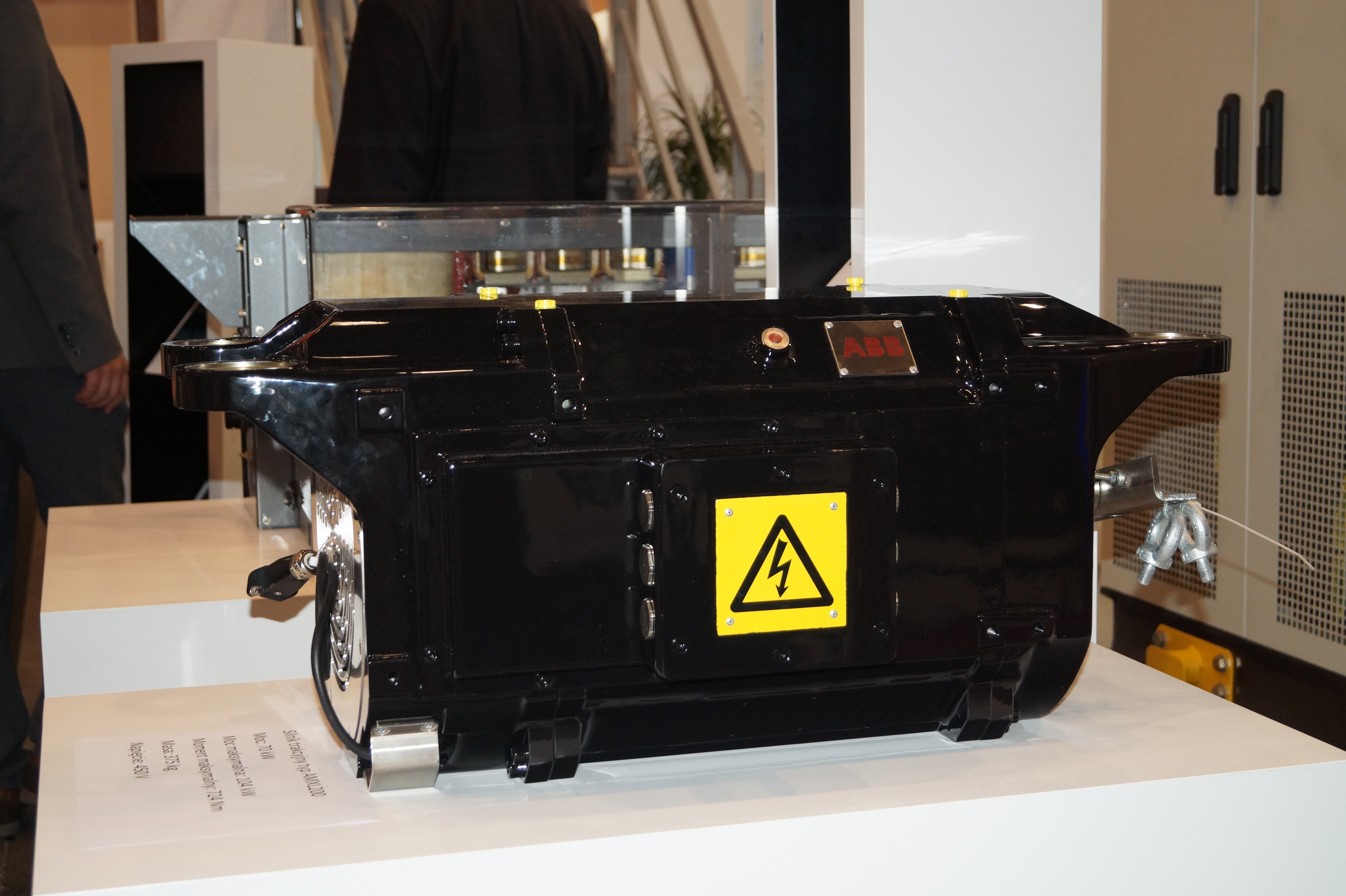 The making of this document was supported by Wikimedia Polska Association, within Wikigrant no. WG 2015-34. English | polski | +/− Silnik trakcyjny ABB AMXL 200 wystawiany na Targach Trako 2015